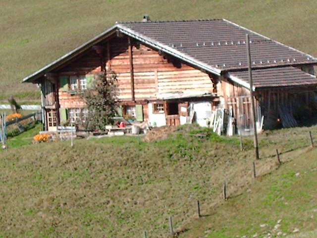 Simpler version of the Frutighaus in Adelboden-Stiegelschwand